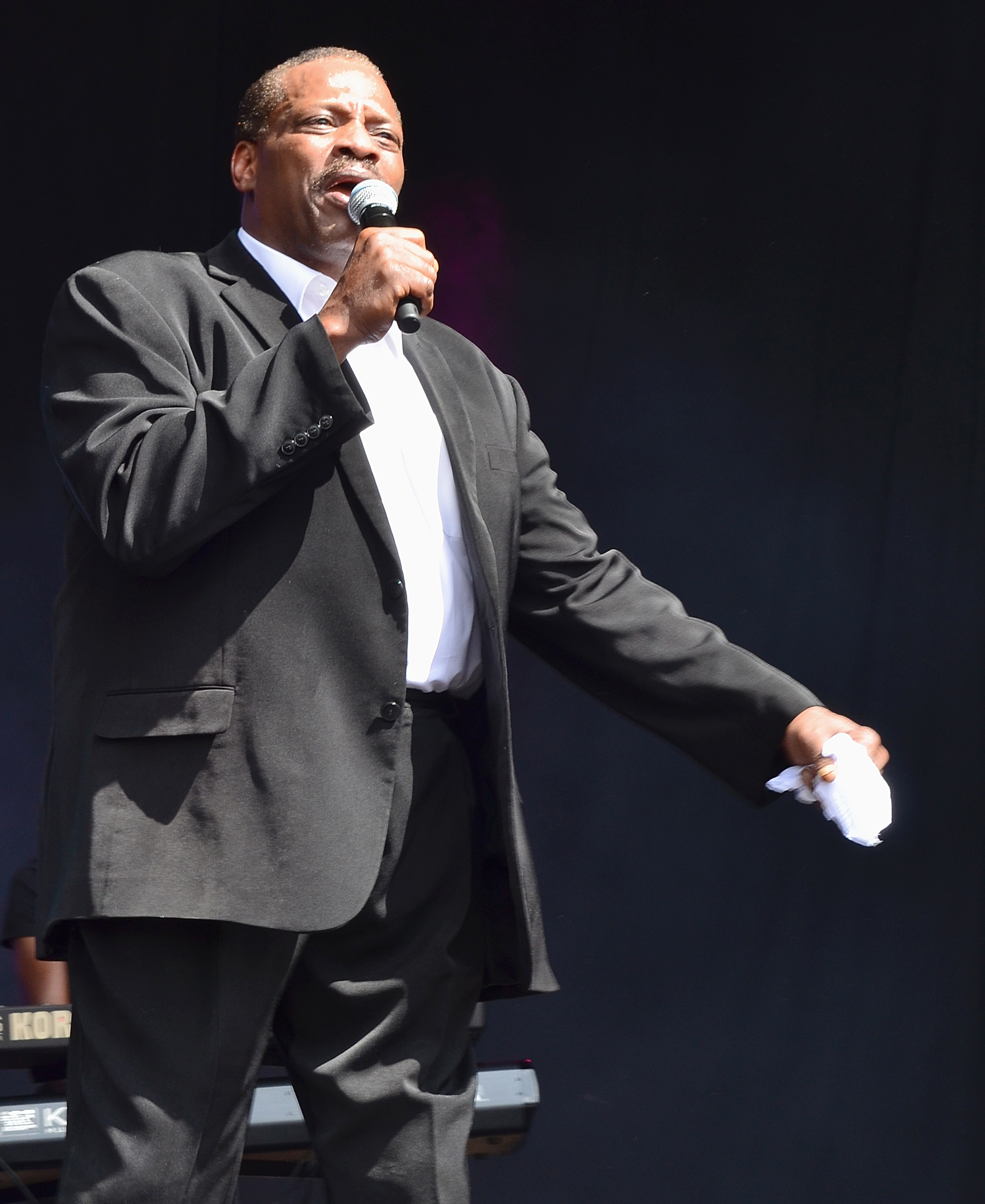 Alexander O'Neal performing in Bristol, UK in 2014